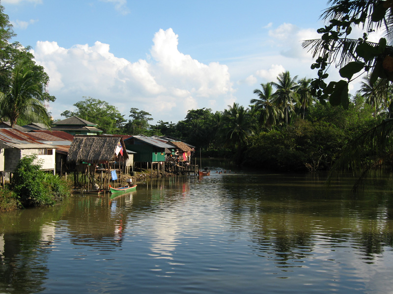 River and village in Satun, Thailand